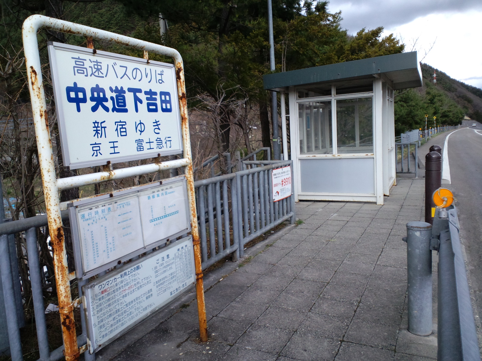 Shimoyoshida bus stop in Chuo Expressway(For Tokyo).